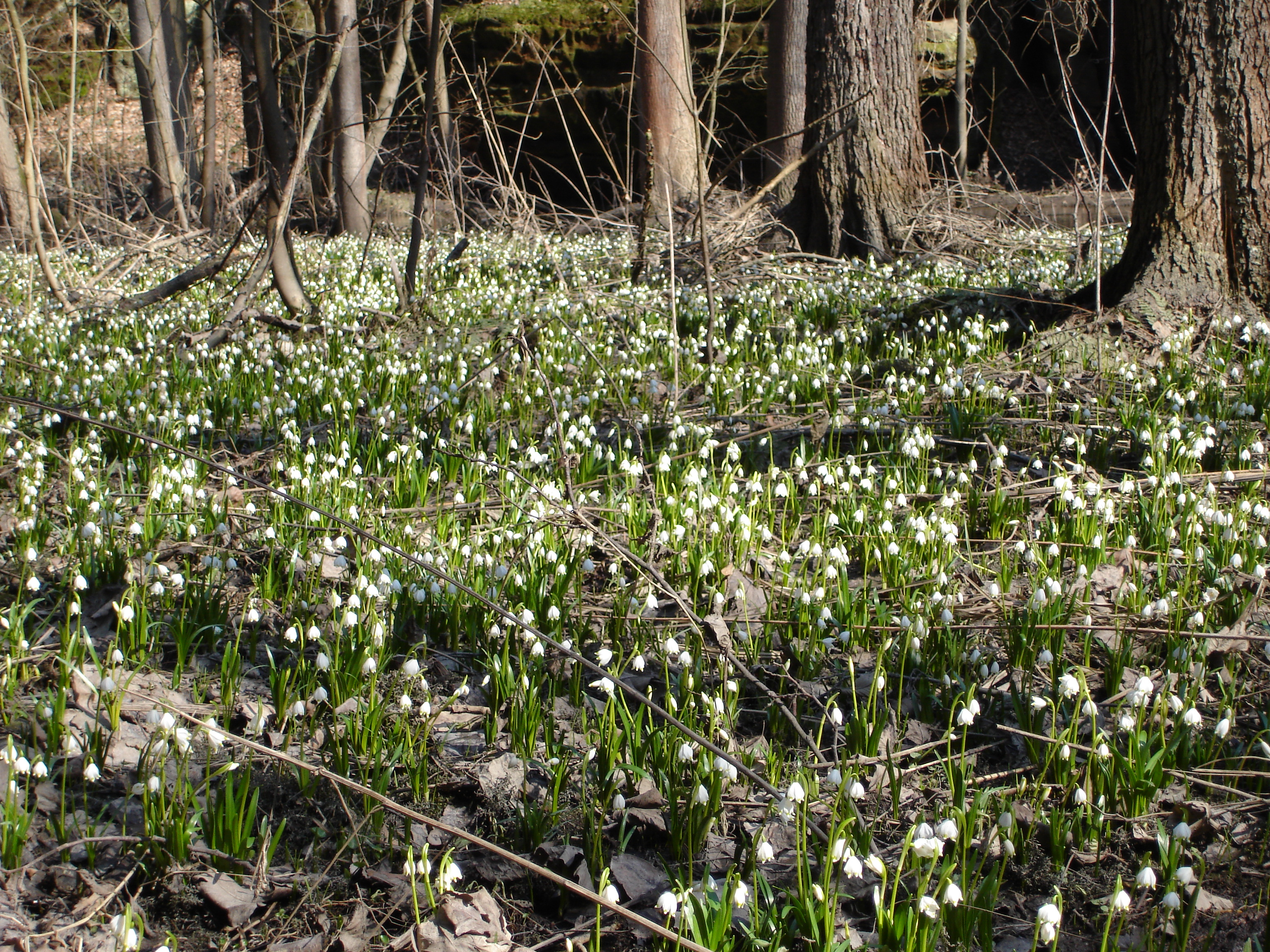 Peklo near Česká Lípa, Czech Republic